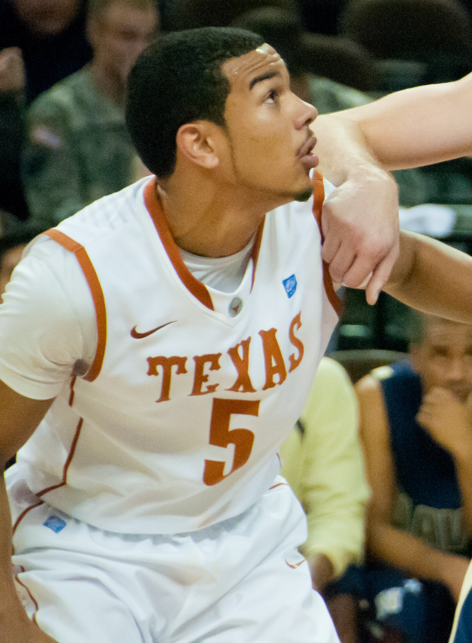 Cory Joseph (5) and Alexis Wangmere (right) of Texas. Texas Longhorns vs Navy Midshipmen, Coaches vs Cancer Classic, November 8, 2010, Frank Erwin Center, Austin, Texas.